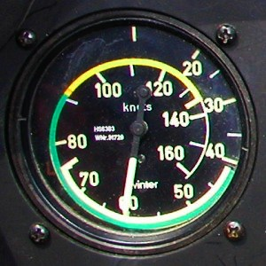 540 degree airspeed indicator from a glider I took this picture.